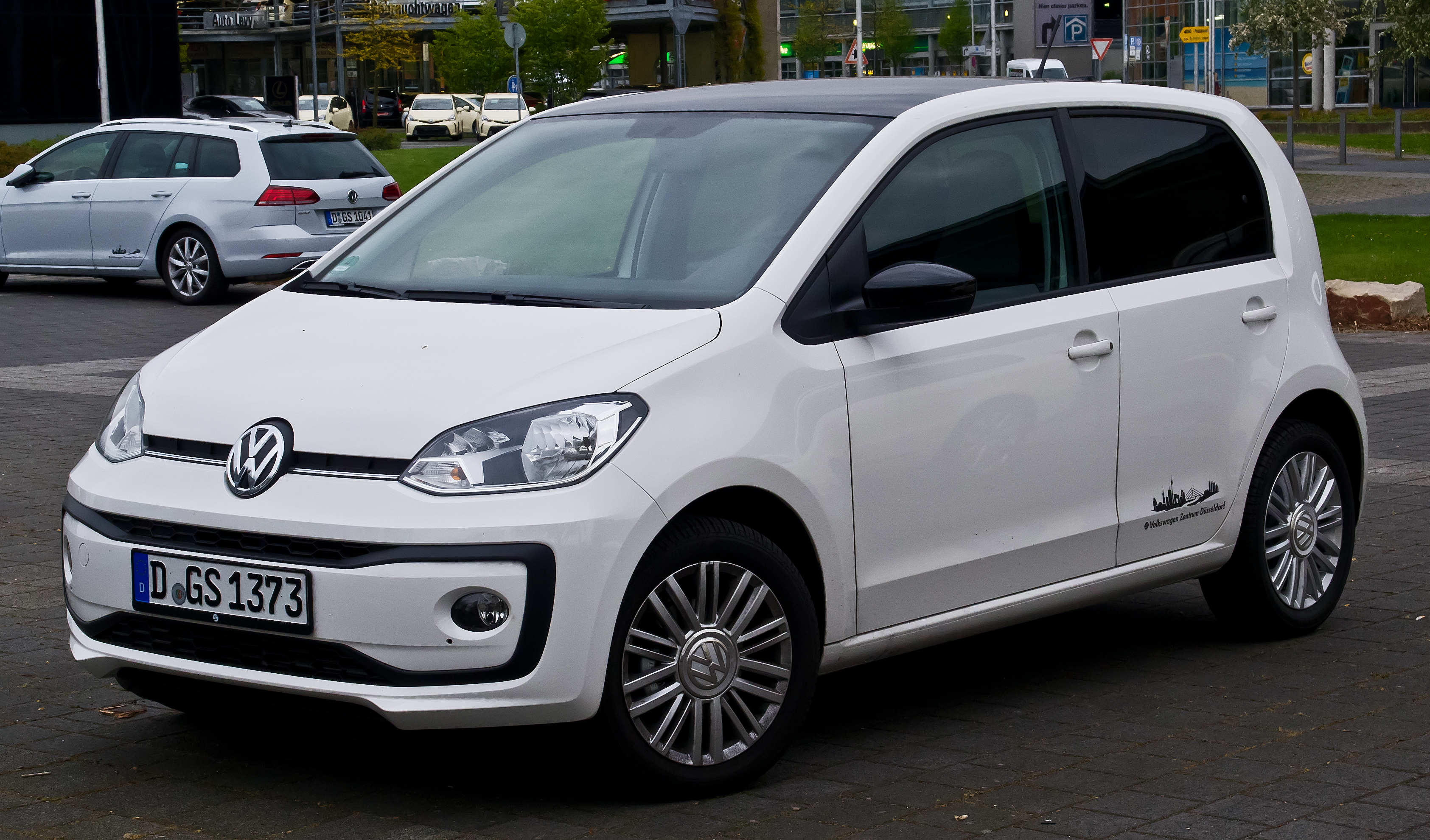 VW high up! 1.0 BlueMotion Technology (Facelift)